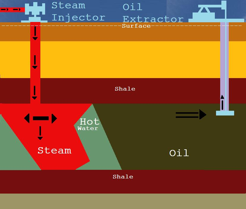 How oil is extracted using steam.